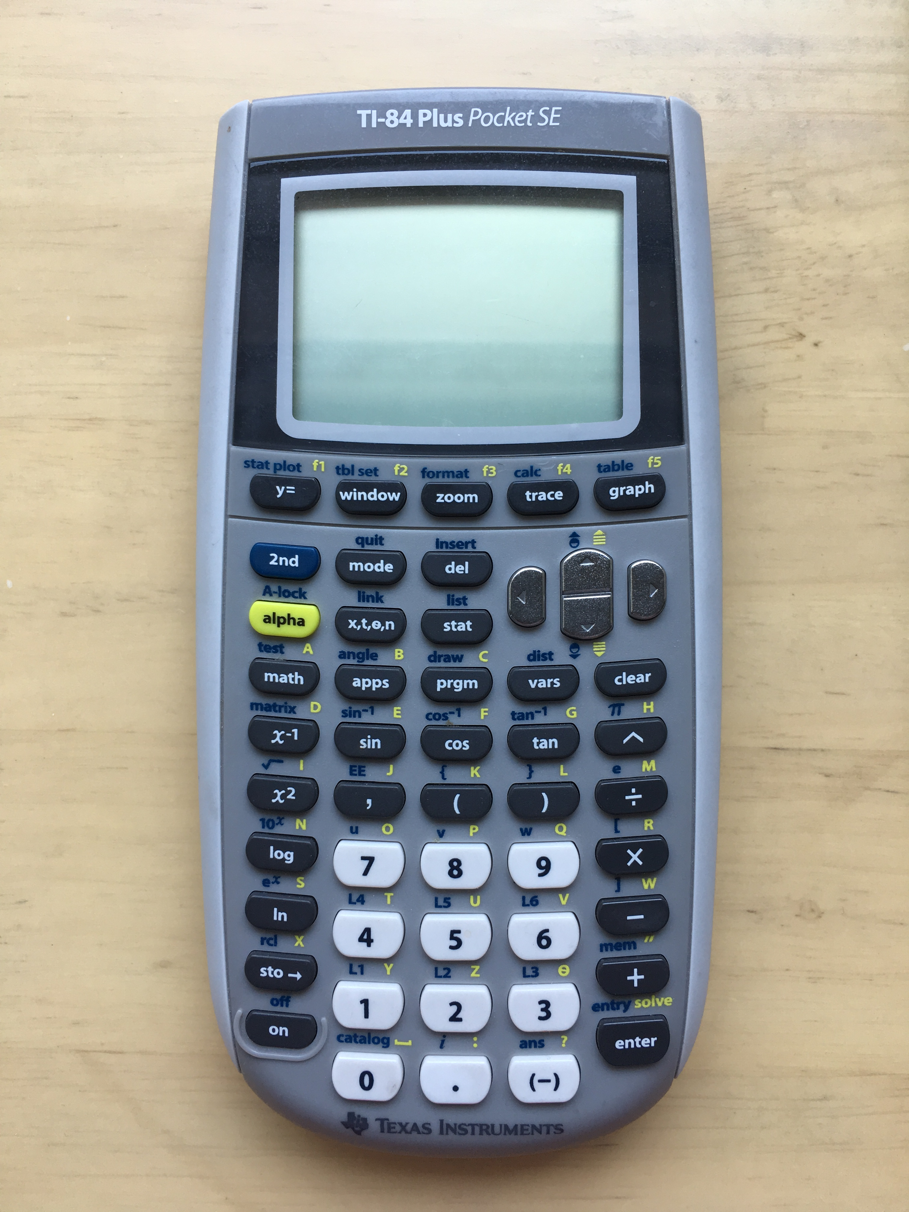 TI-84 Plus Pocket SE, For French and Asian market.